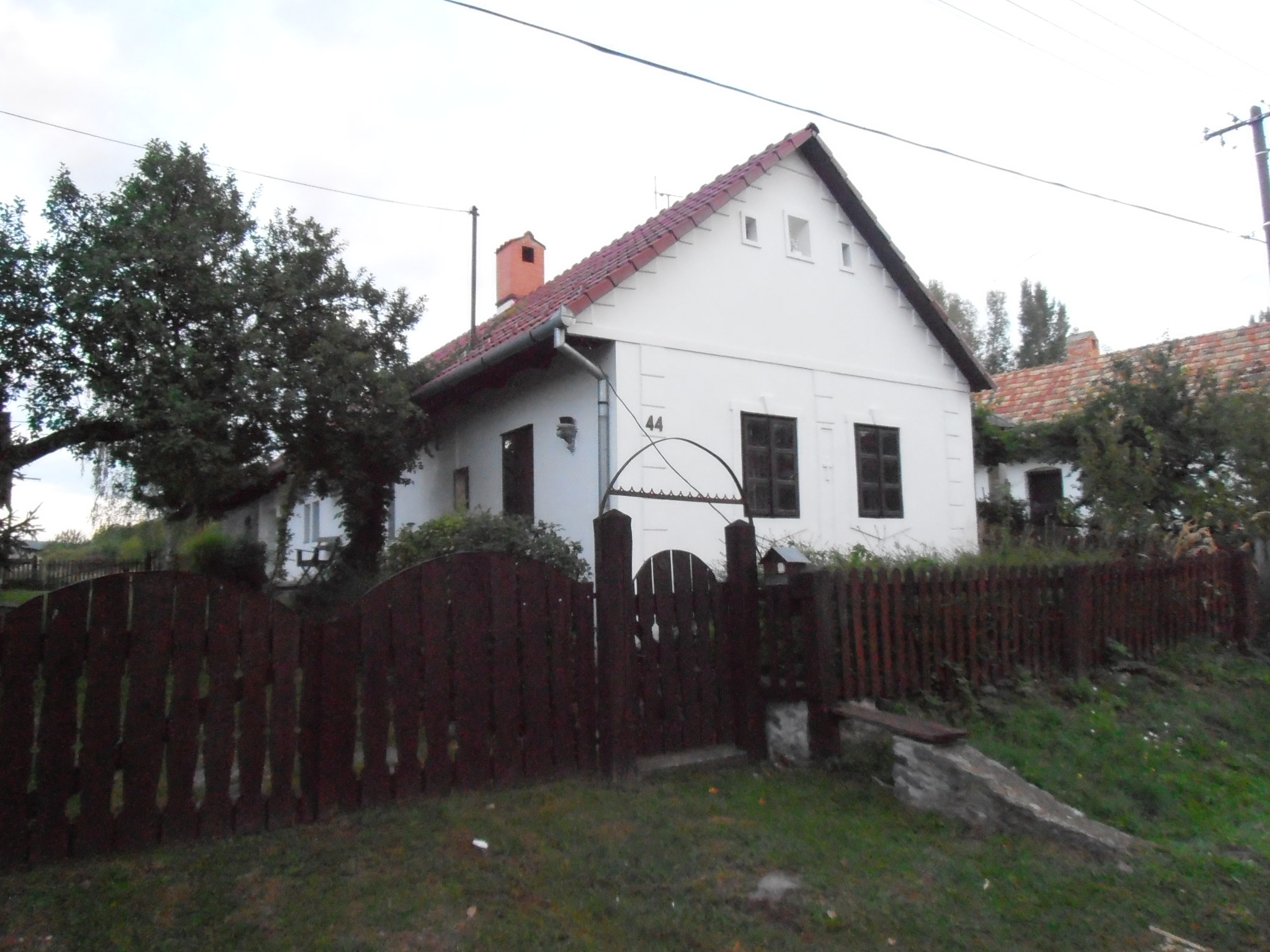 House in Regéc, Hungary